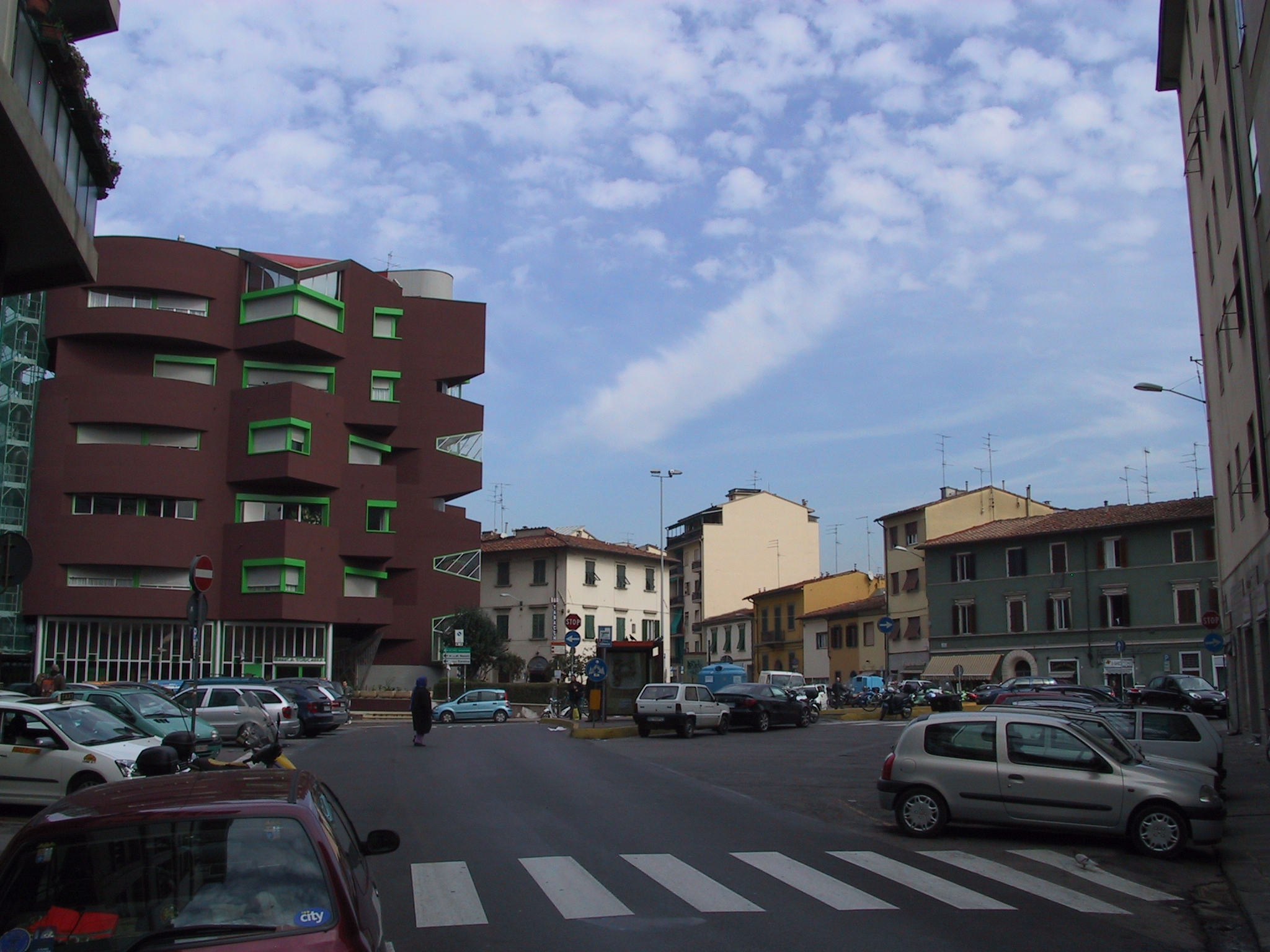 S.Jacopino square in Florence